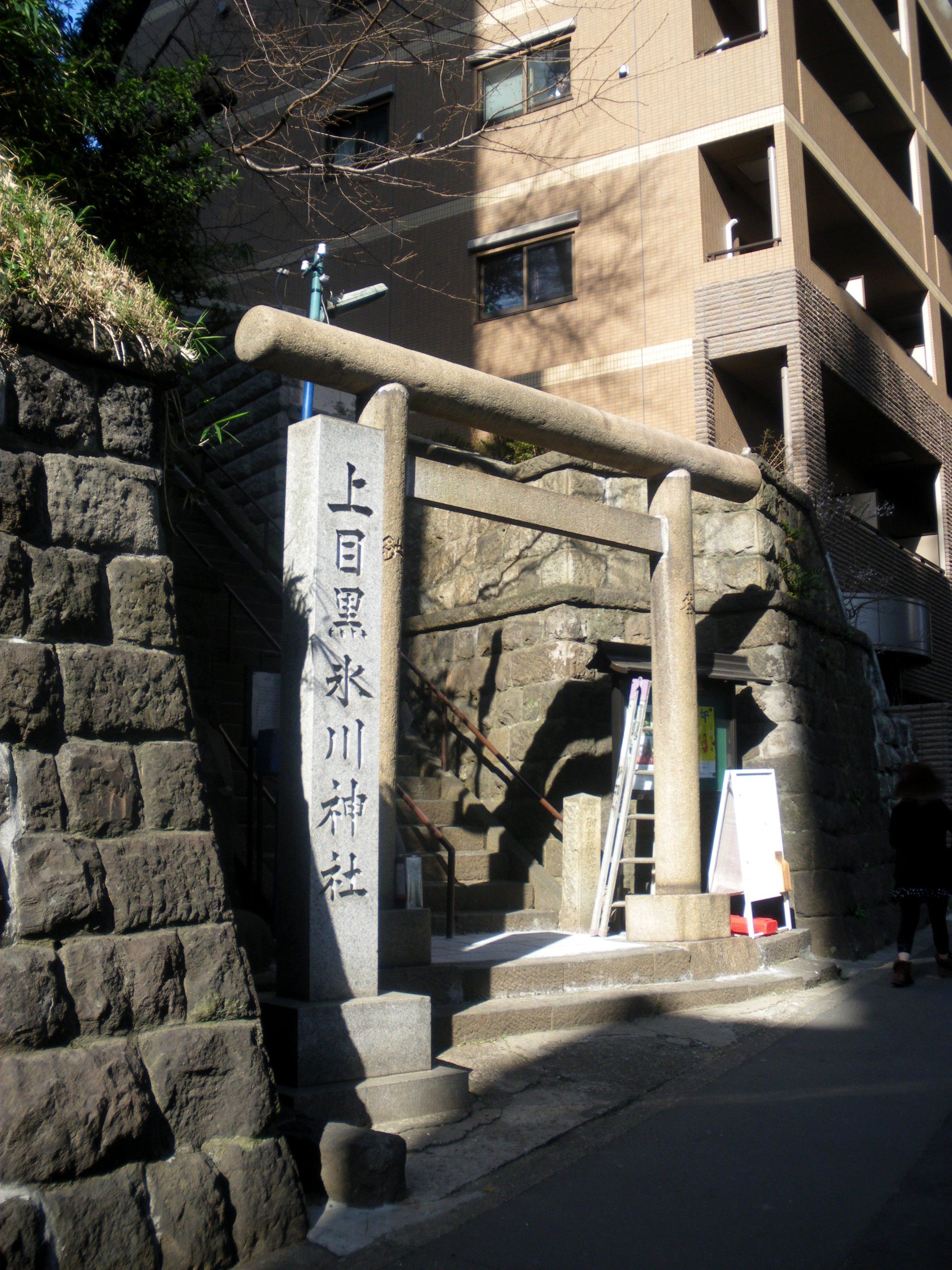 Kamimeguro Hikawa Jinja(Ohashi,Meguro,Tokyo)